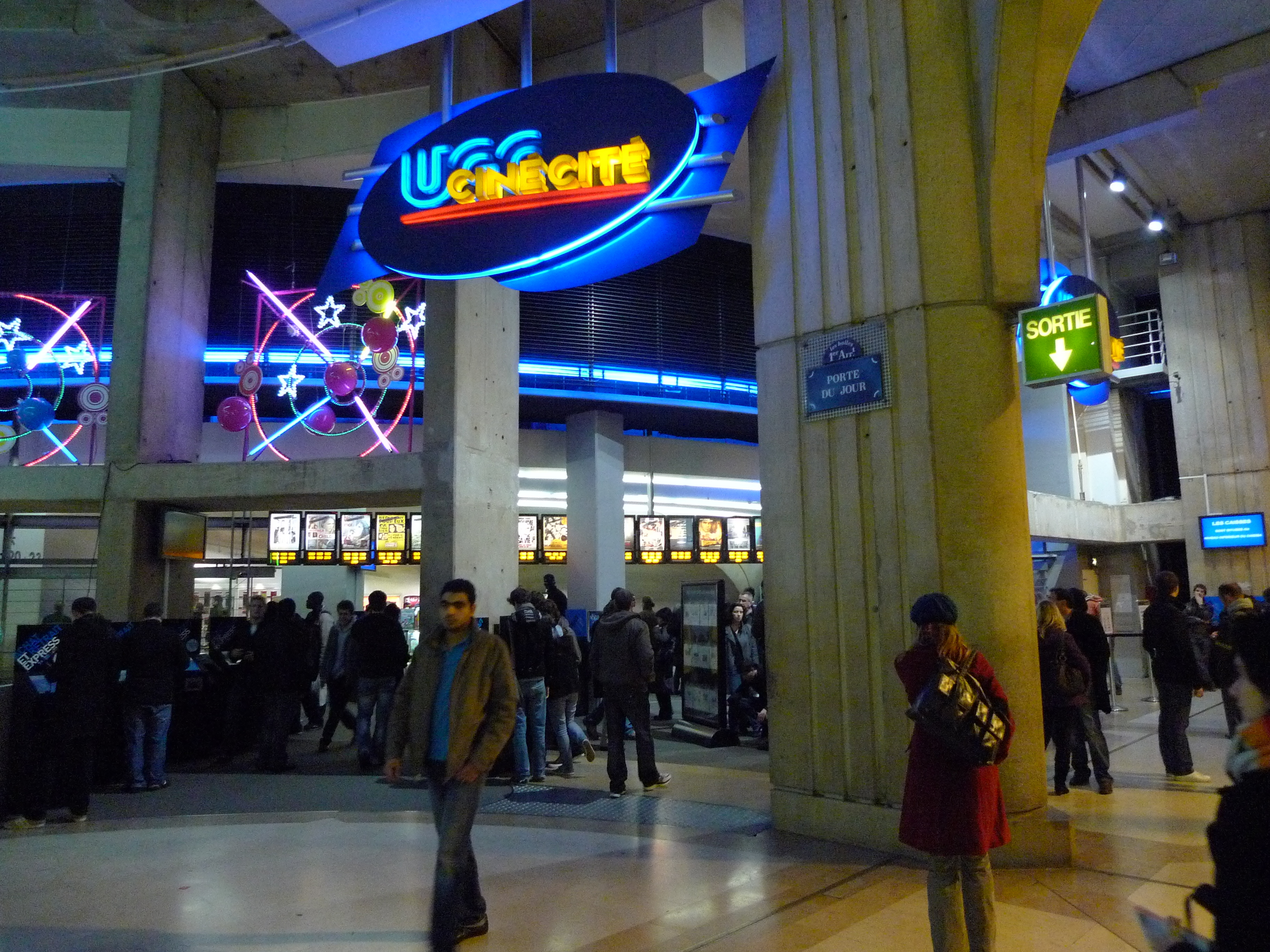 Forum des Halles, Paris, France.